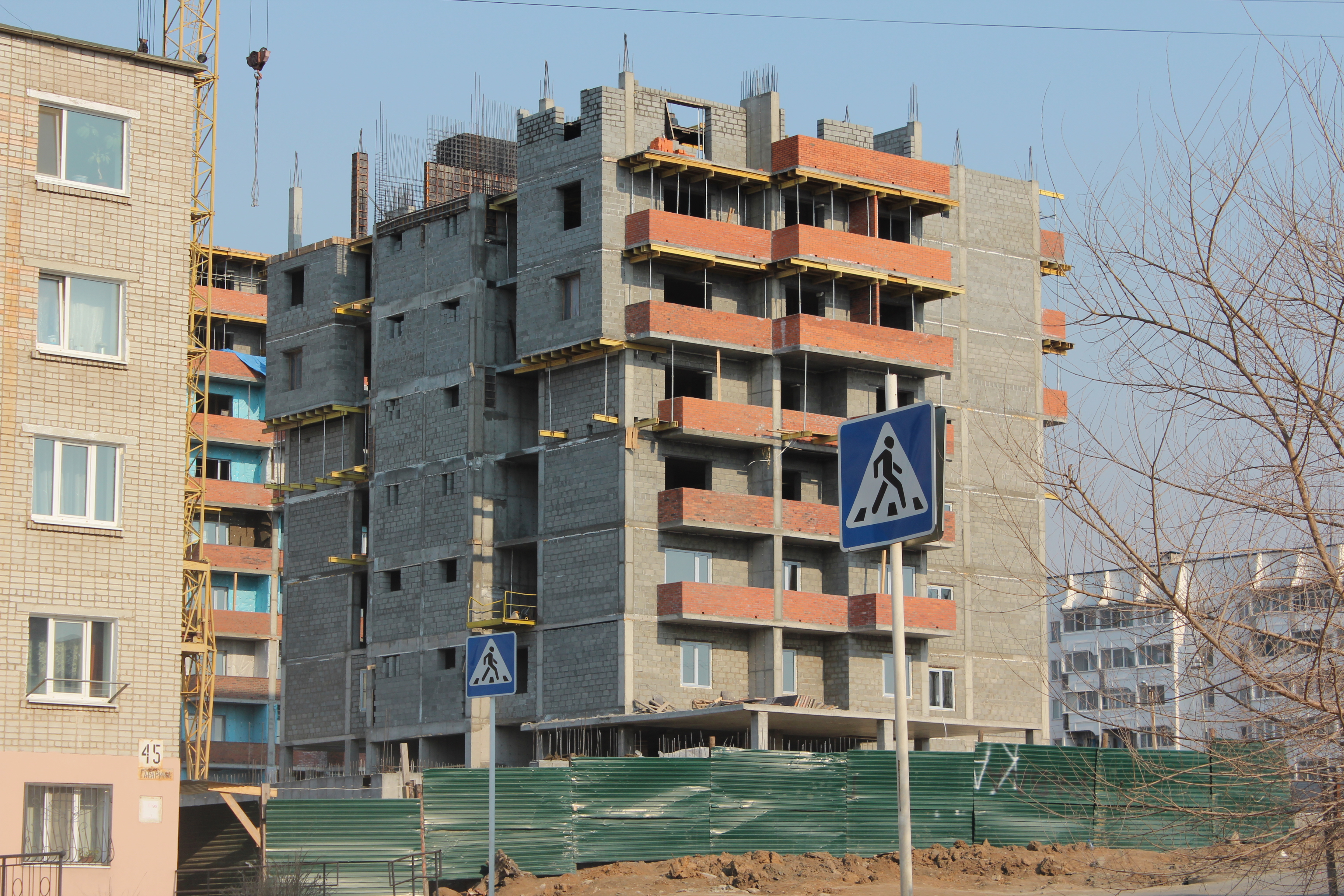 Building under construction in Bolshoy Kamen